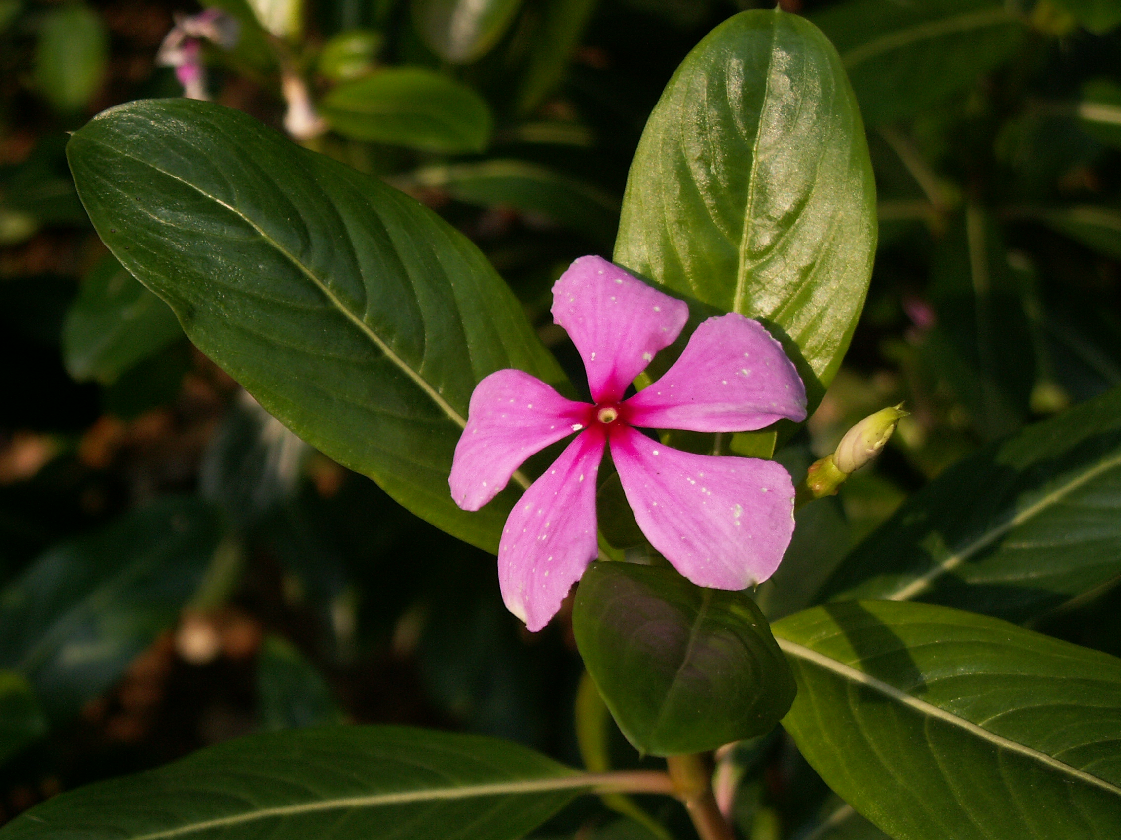 A Madagascar periwinkle flower and leaves in CUHK, Hong Kong. Photo taken by Lorenzarius on 29 March 2006. 中文名: 長春花 Common name: Madagascar periwinkle Scientific name: Catharanthus roseus (L.) G. Don